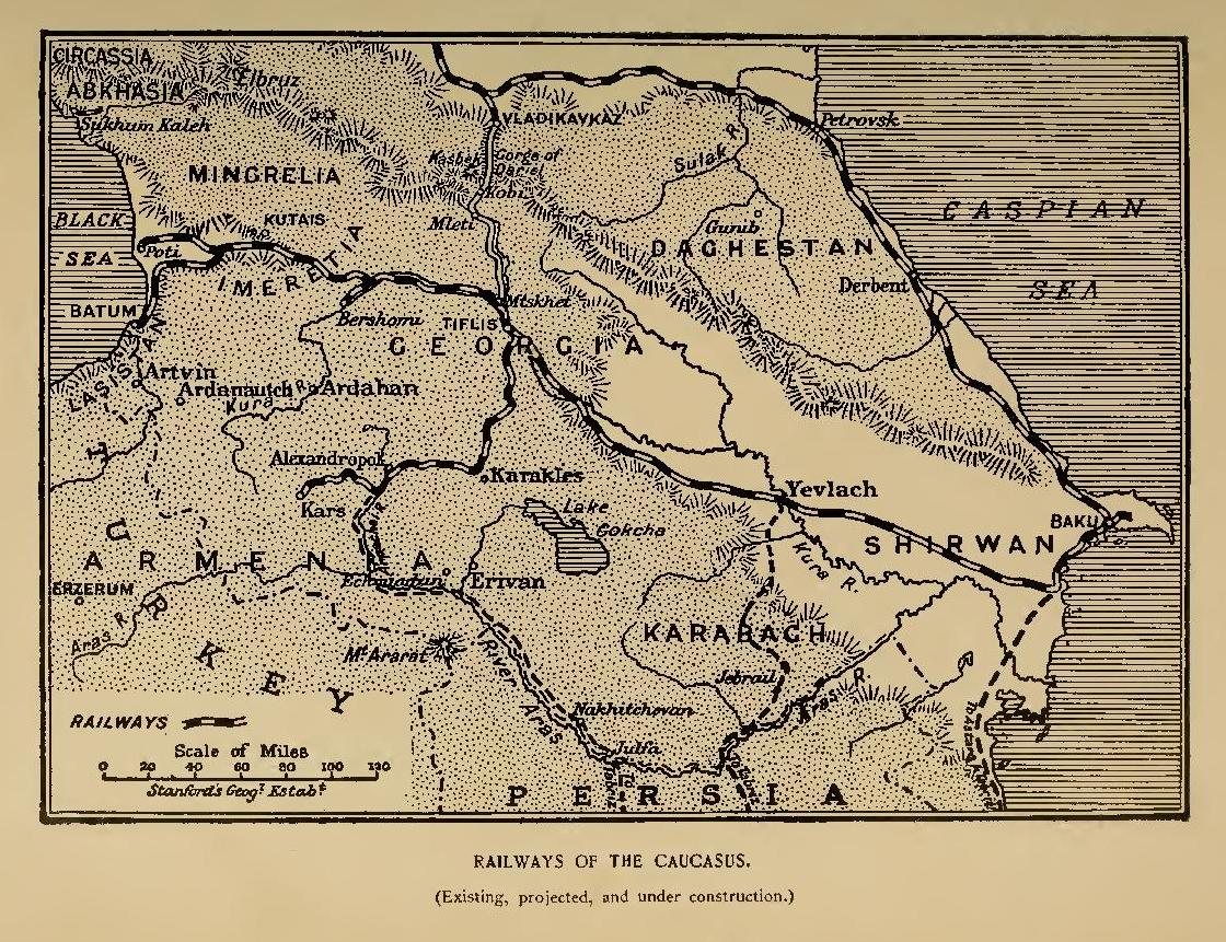 Railways of the Caucasus (existing, projected and under construction) (Norman, 1902)